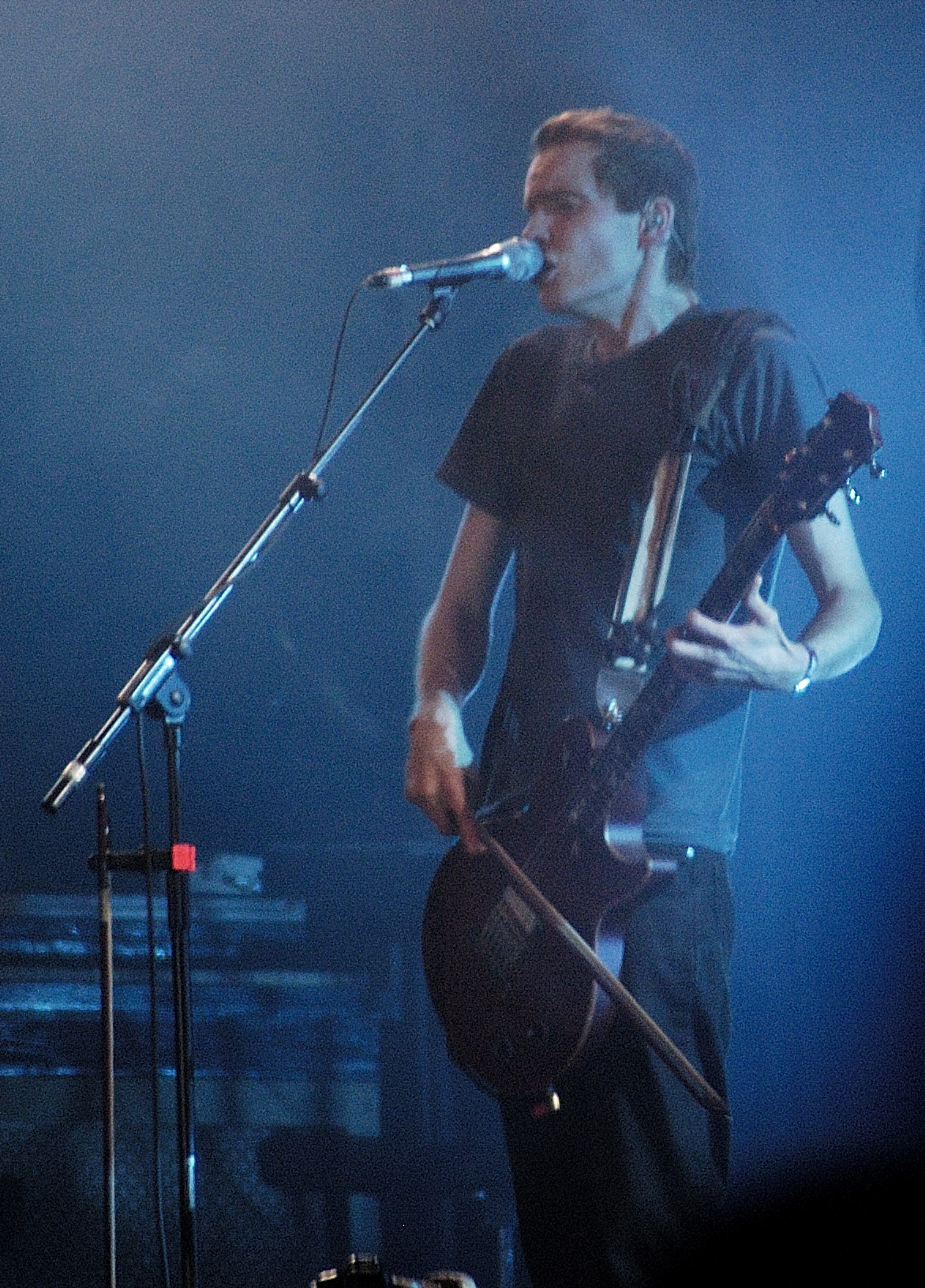 Jón Þór Birgisson, lead singer of Sigur Rós, at the Roskilde Festival in 2006